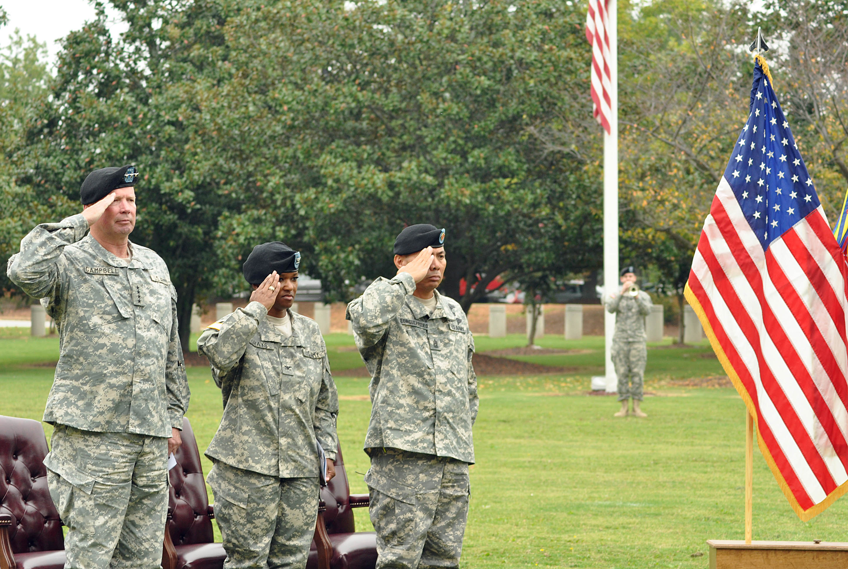 Gen. Charles C. Campbell, U.S. Army Forces commanding general, Col. Deborah B. Grays, U.S. Army Garrison commander and Command Sgt. Maj. Kenny LeonGuerrero, USAG command sergeant major, render salutes to the United States flag as a bugler plays taps during the close of Patriot Day ceremonies held Sept. 11 at Fort McPherson. Fort McPherson and Fort Gillem joined the rest of the nation in honoring the victims of the terrorist attacks that took place Sept. 11, 2001.